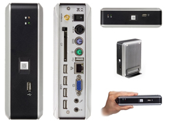 Promotional image of the Zonbu box. Retrieved from